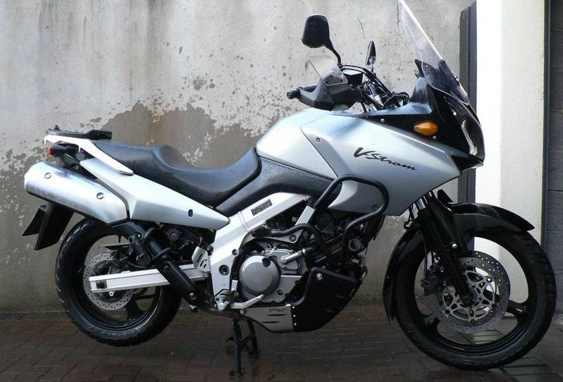 Author: Das051